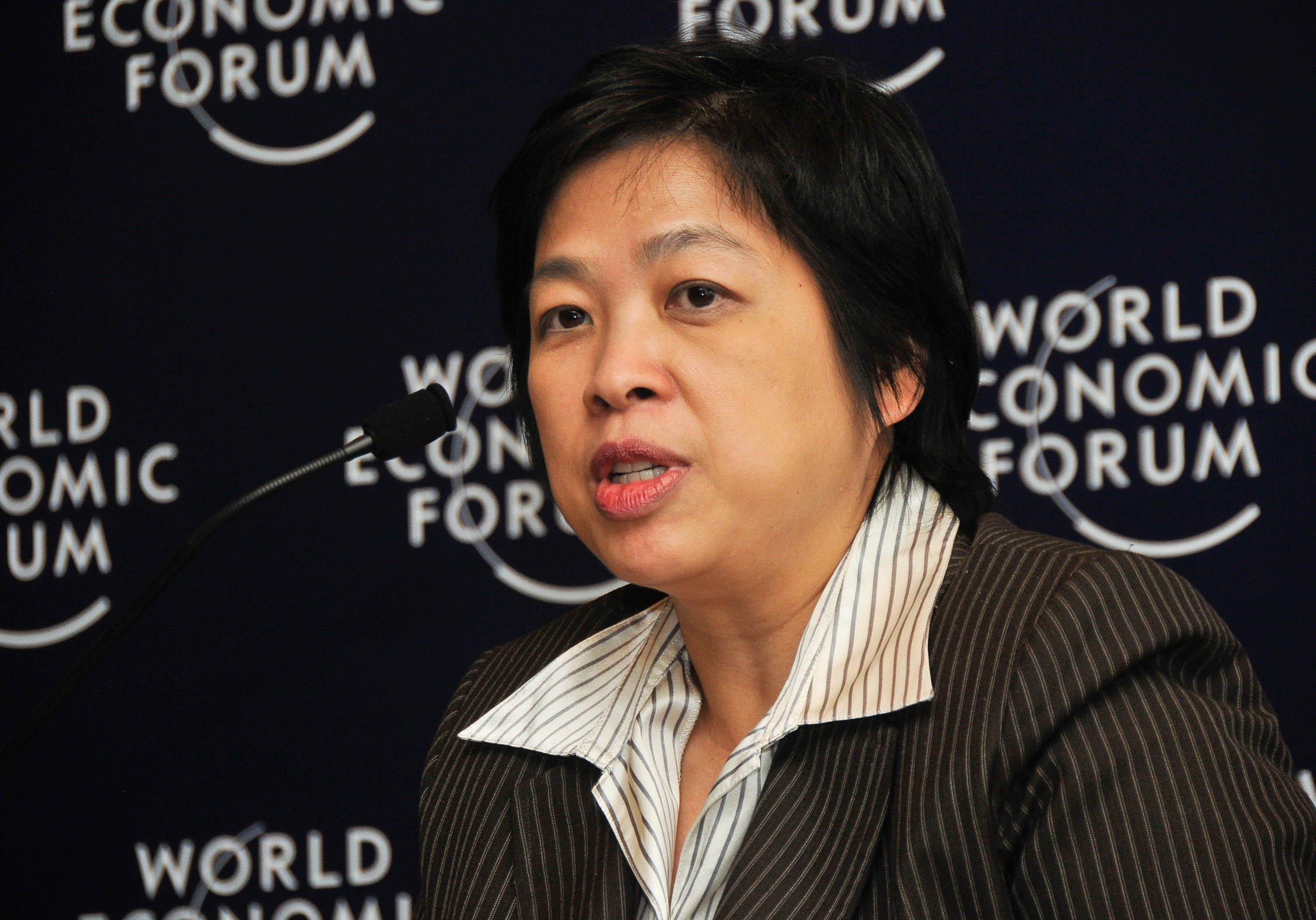 SEOUL/SOUTH KOREA, 19JUN09 – Lim Hwee Hua, Minister, Office of the Prime Minister of Singapore – captured during the World Economic Forum on East Asia in Seoul, South Korea, June 19, 2009. Copyright World Economic Forum/Photo by Oh Jaehyuk.